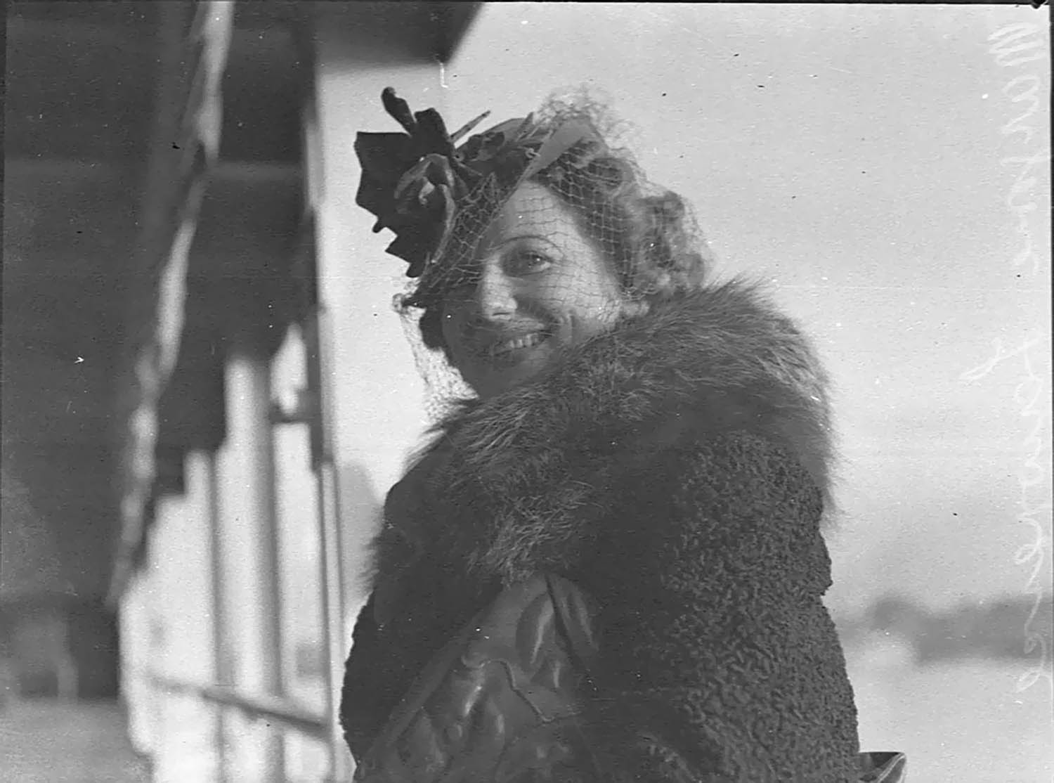 Format: Film photonegative Notes: "When Lawrence appeared in an all-Wagner program with the Sydney Symphony Orchestra [Sir Neville] Cardus said her singing of Brunnhilde's farewell from Gotterdammerung was as great an example of Wagnerian singing as Sydney was likely to hear in a lifetime." Find more detailed information about this photograph: .au/item/itemDetailPaged.aspx?itemID=24591 Search for more great images in the State Library's collections: .au/search/SimpleSearch.aspx From the collection of the State Library of New South Wales